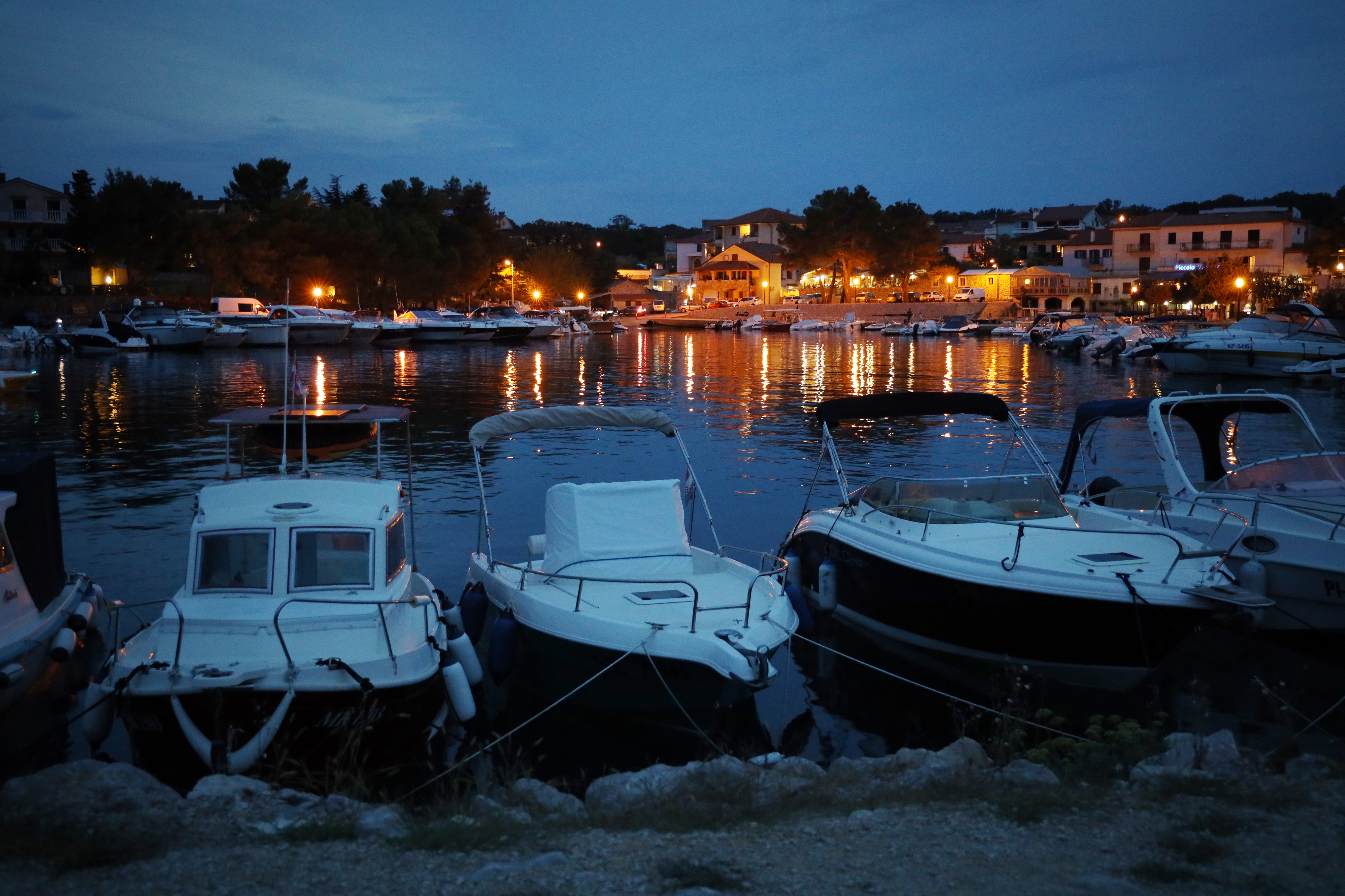 Port of Porat at dusk on the island of Krk.